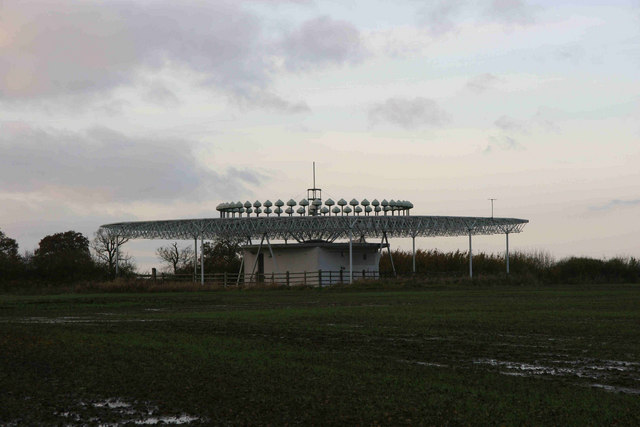 Daventry VOR This is Daventry VOR, VOR stands for VHF Omnidirectional Radio Range. It is a beacon used by aircraft to navigate around, they use these to stack over too. Known to Pilots as DTY VOR on 116.4 there is a network of these around the country, the next one north is "Hon" just South of Birmingham, to the South is Cranfields VOR near Milton Keynes.